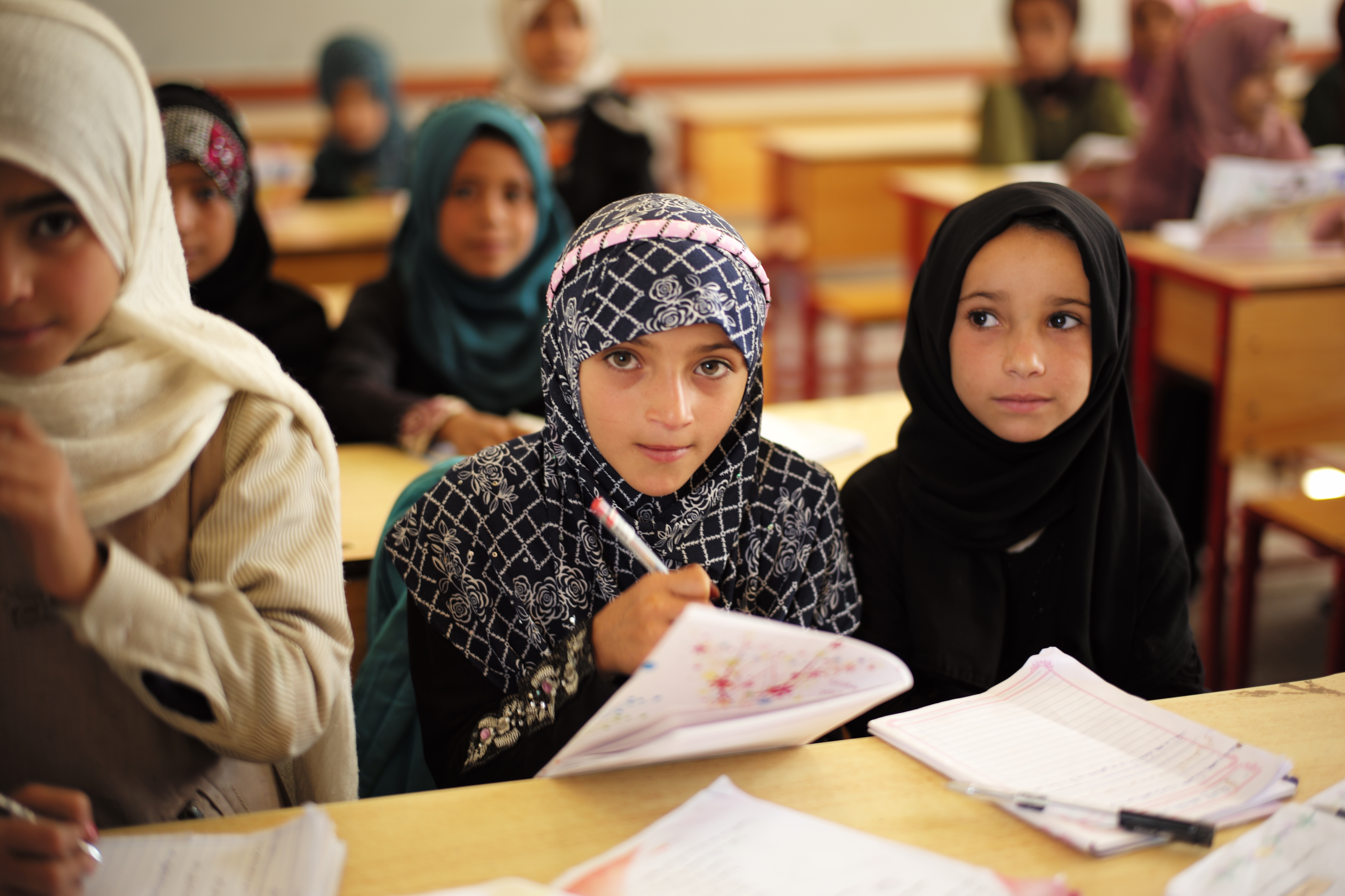 Always a wonderful sight